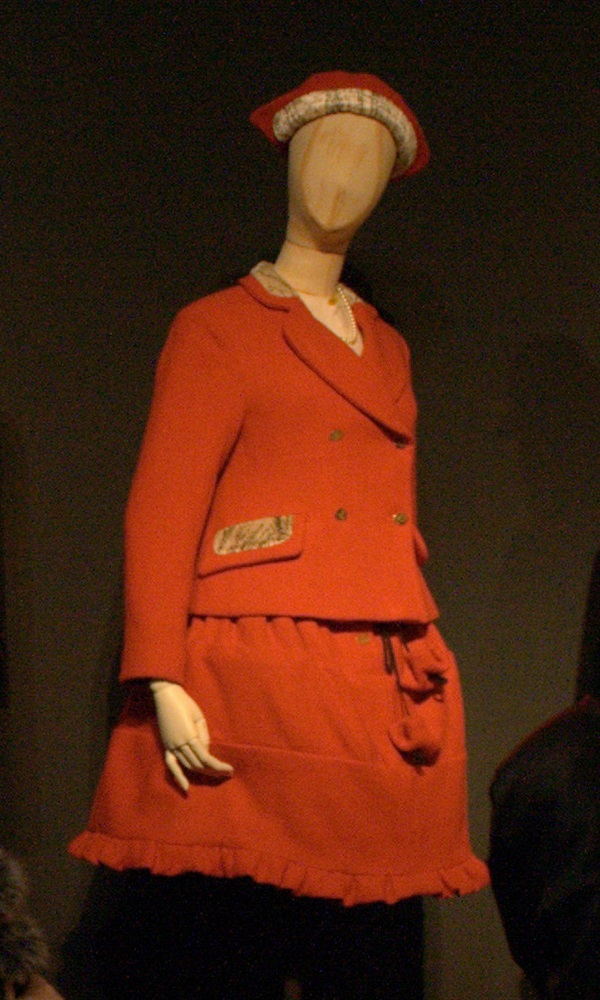 Vivienne Westwood "mini crini" suit, 1985-87